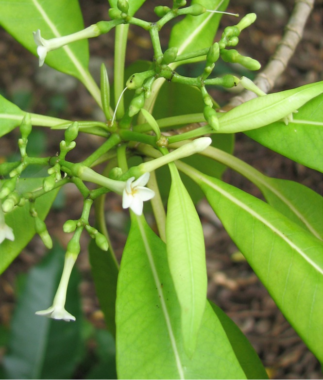 Rauvolfia nukuhivensis, branchlet with leaves and inflorescence with open flowers, and buds with left-contort corolla lobes (Terre-Deserte, Nuku Hiva, May 2007, Butaud (unvouchered)